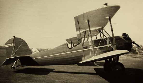 Catalog #: 00071205 Manufacturer: Spartan Designation: C-3